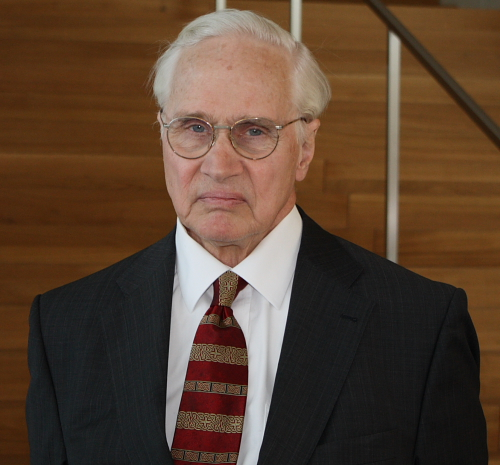 Picture of Francis Sejersted